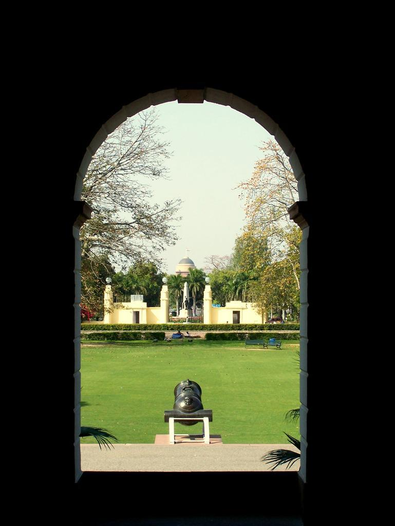 Lawns of Teen Murti Bhavan, and Rashtrapati Bhavan at a distance. New Delhi